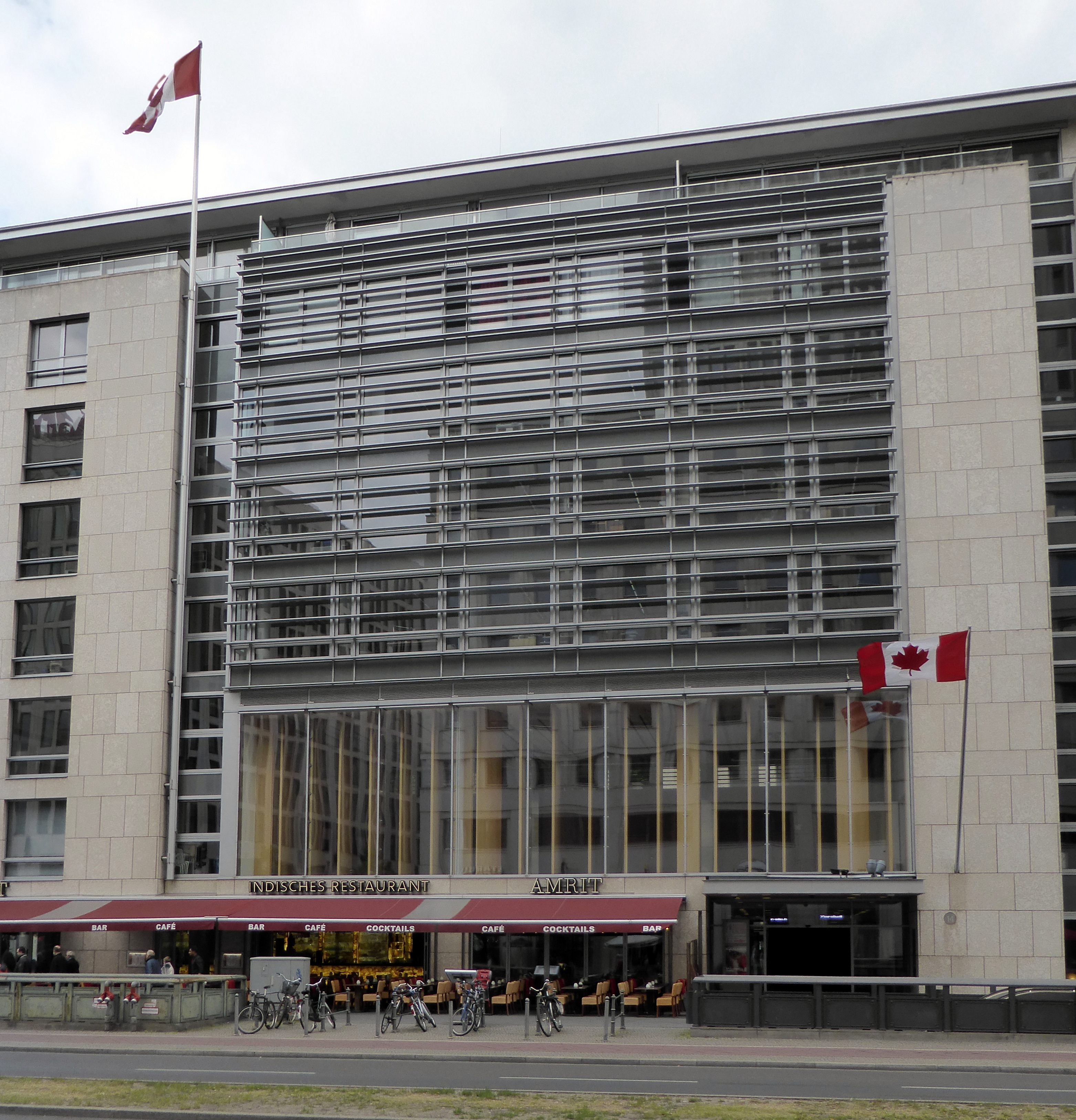 Berlin in early summer